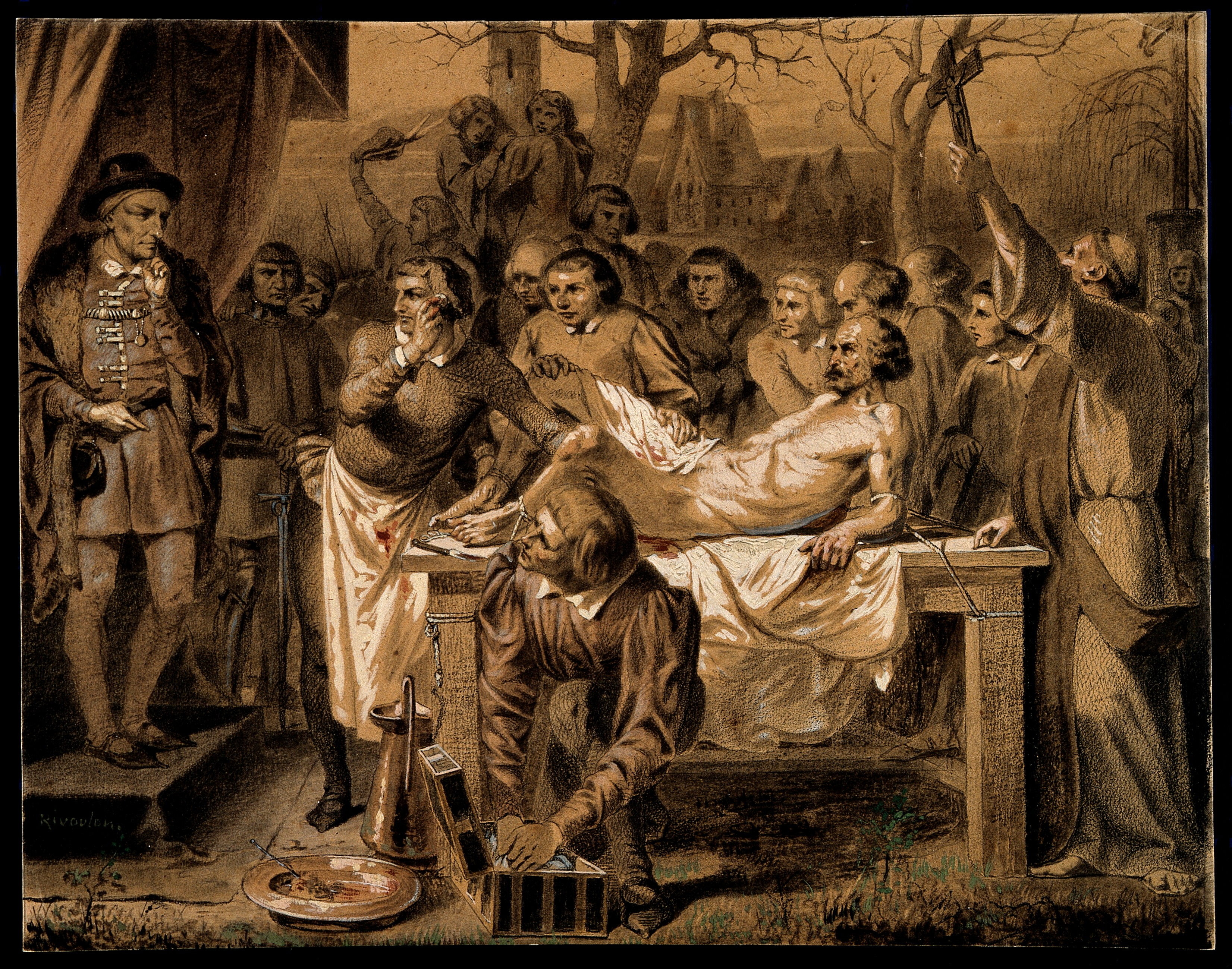 A surgeon holding up a stone after performing a lithotomy on a male patient who is tied to a table, they are in the open air and surrounded by a crowd of people. Coloured pencil drawing by A. Rivoulon. Iconographic Collections Keywords: Antoine Rivoulon